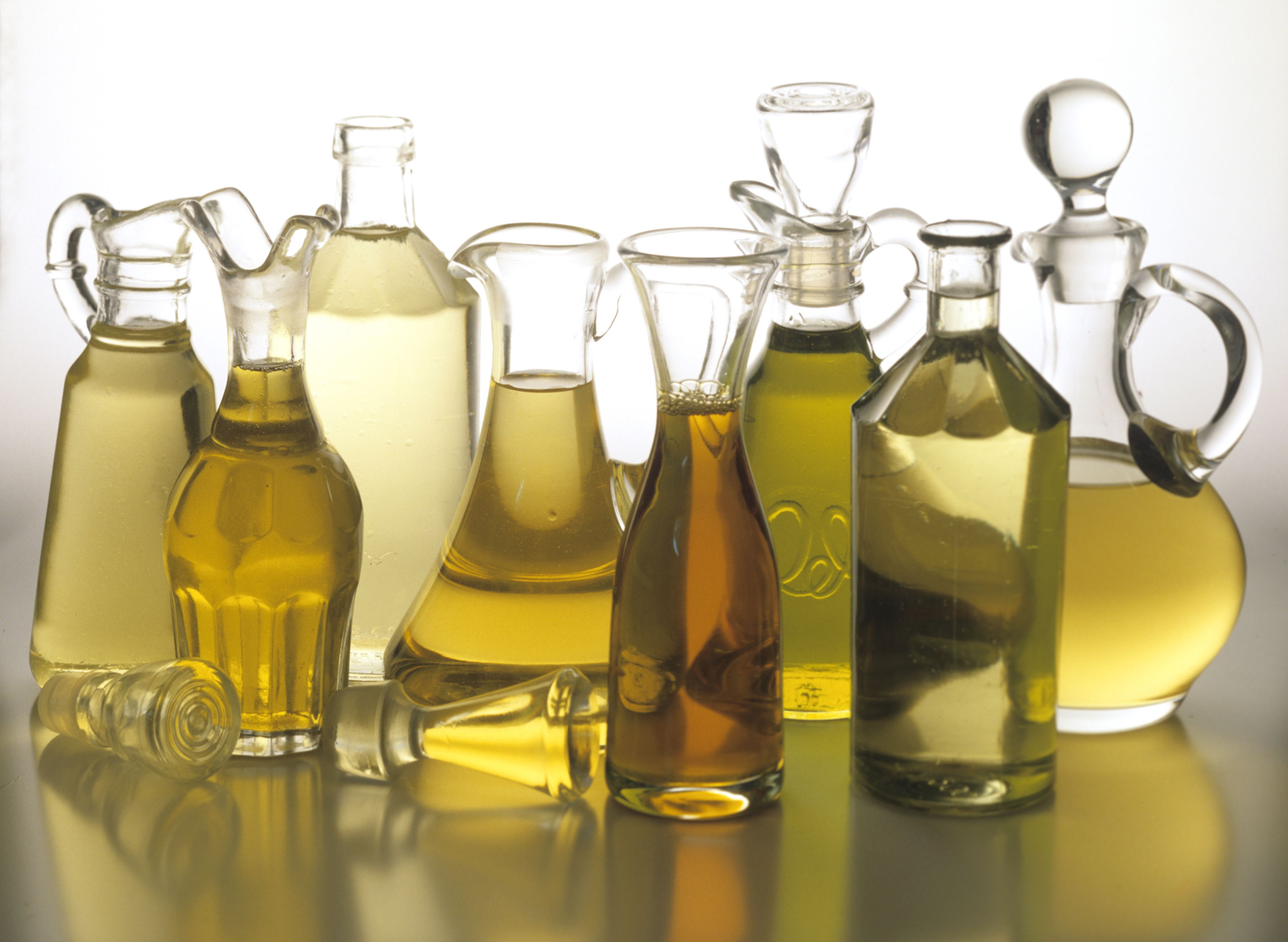 Many types of Oils